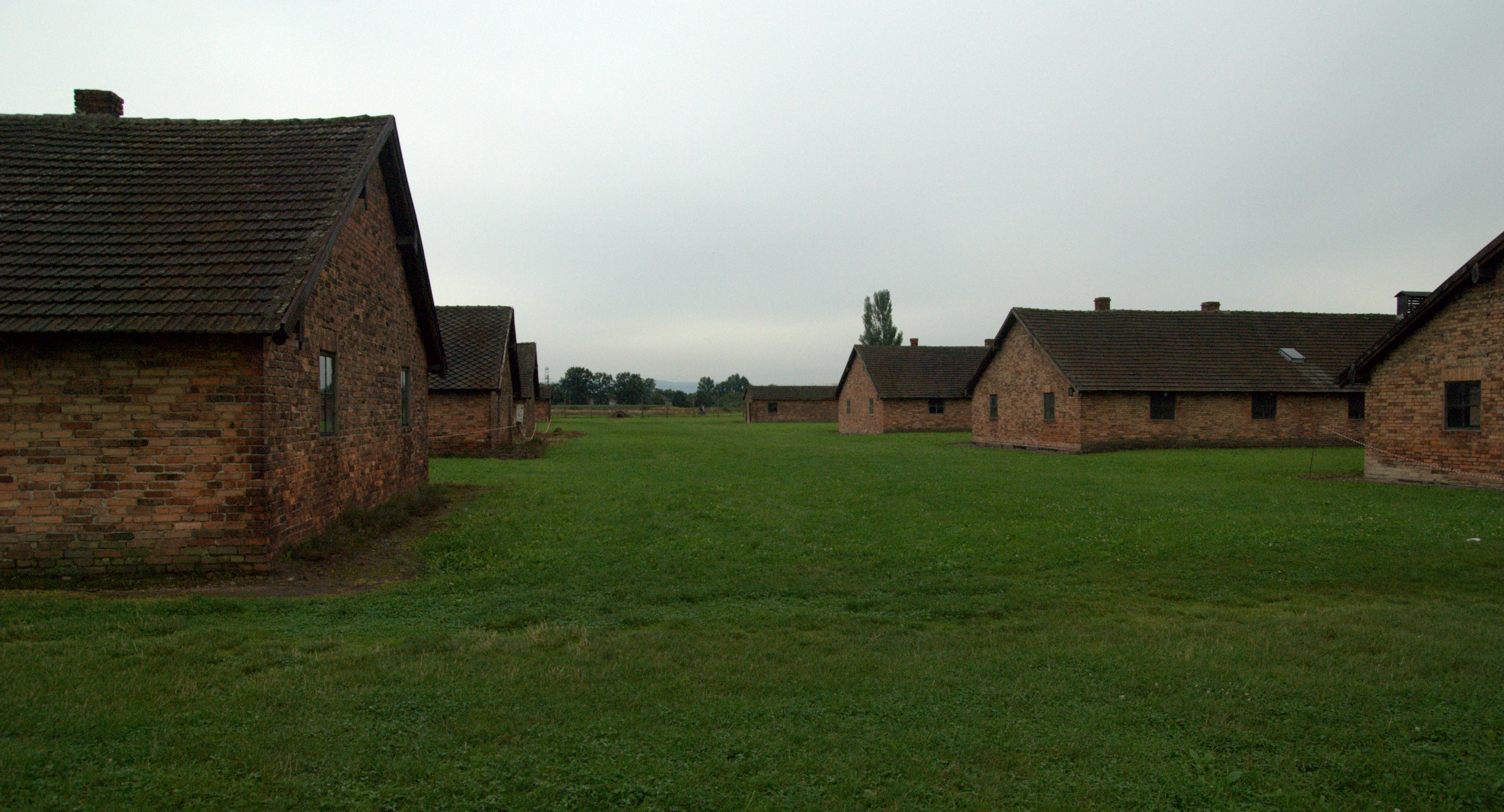 Prisoner buildings in Auschwitz II Birkenau